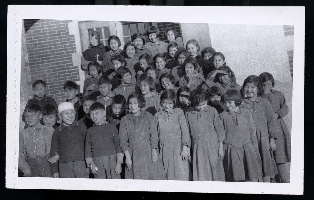 From the Sister Annette Potvin fonds, PR2010.0475/1. Taken around 1940